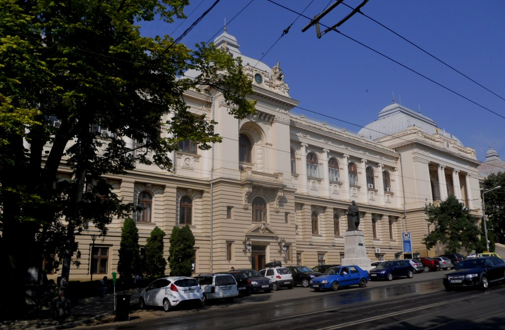 Iasi, University main building